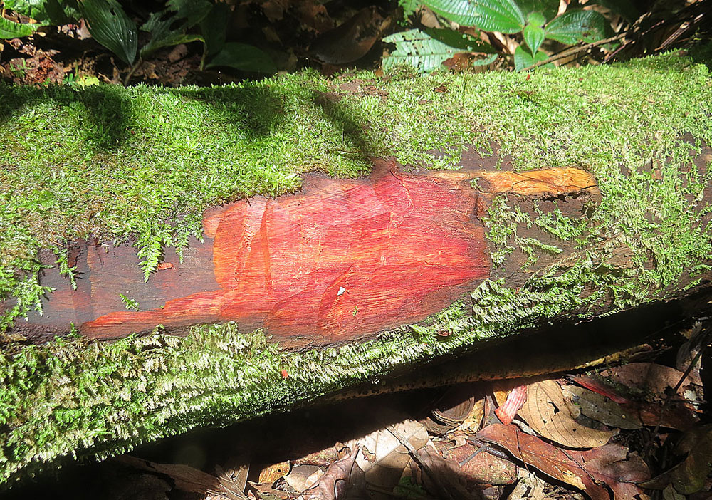 A log in Amacayacu Park of the Colombian Amazon proves to be Bloodwood or Palo de Sangre. This species is found mainly in the Amazon Basin. In context at